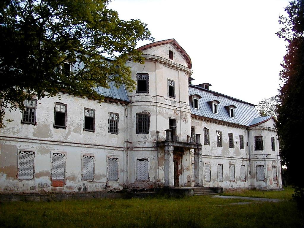 Krāslava New Palace